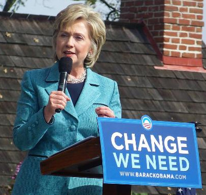 Hillary Clinton speaking at a rally in support of Barack Obama, Horsham, PA